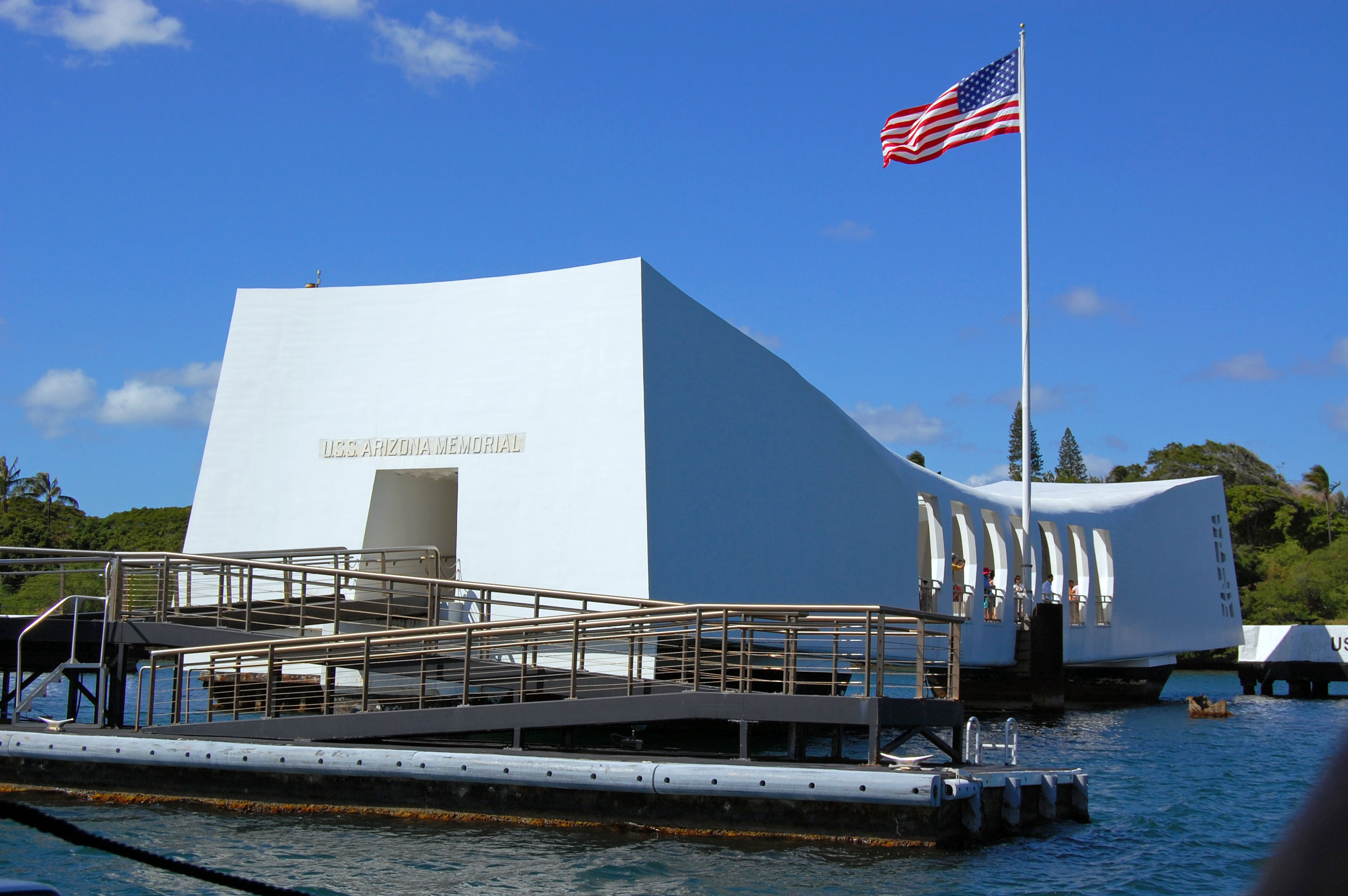 No editing other then removing a small spec of dust which was on my lens.